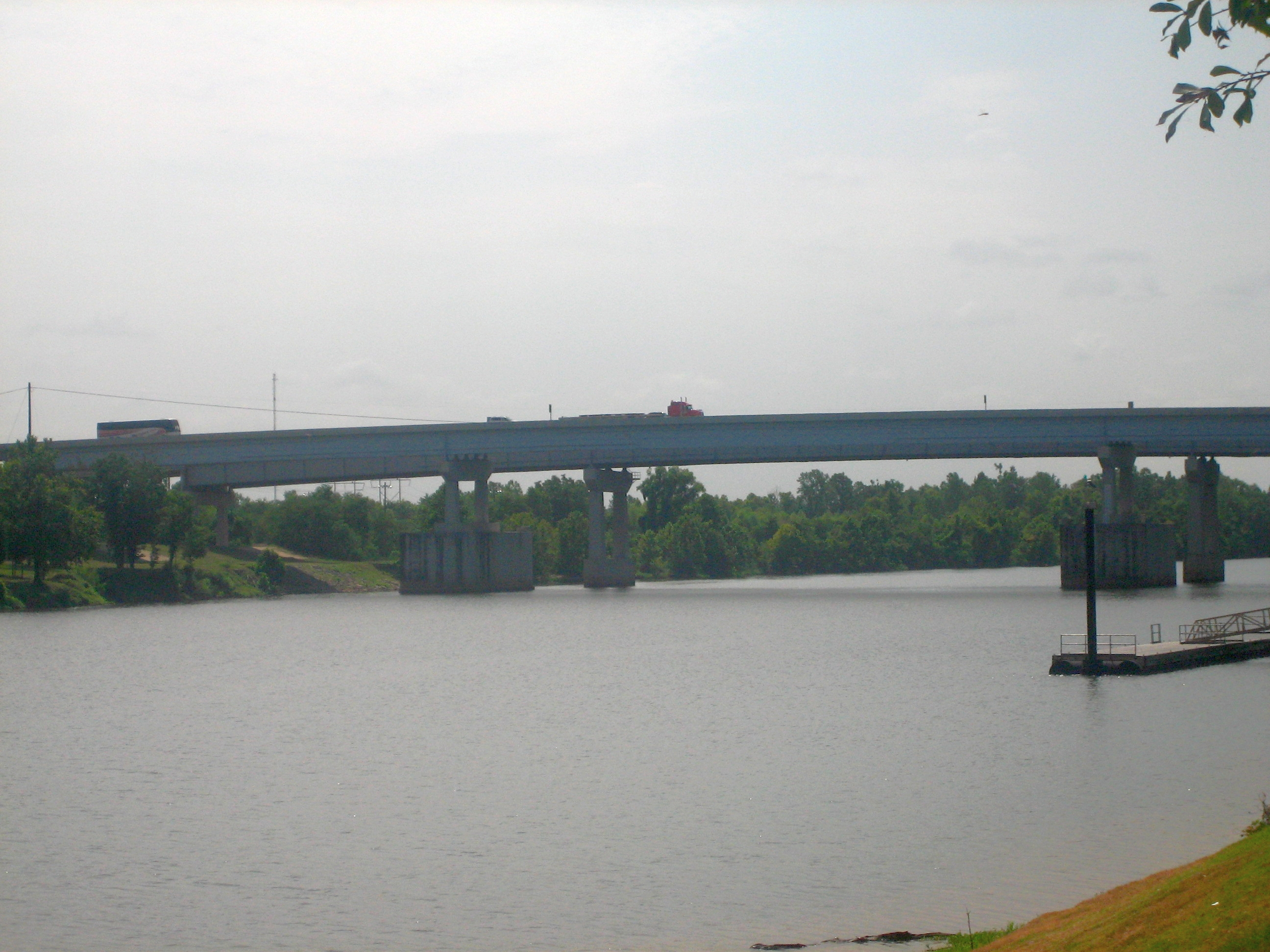 I took photo on Aug. 1, 2008.Billy Hathorn (talk) 03:21, 20 August 2008 (UTC)